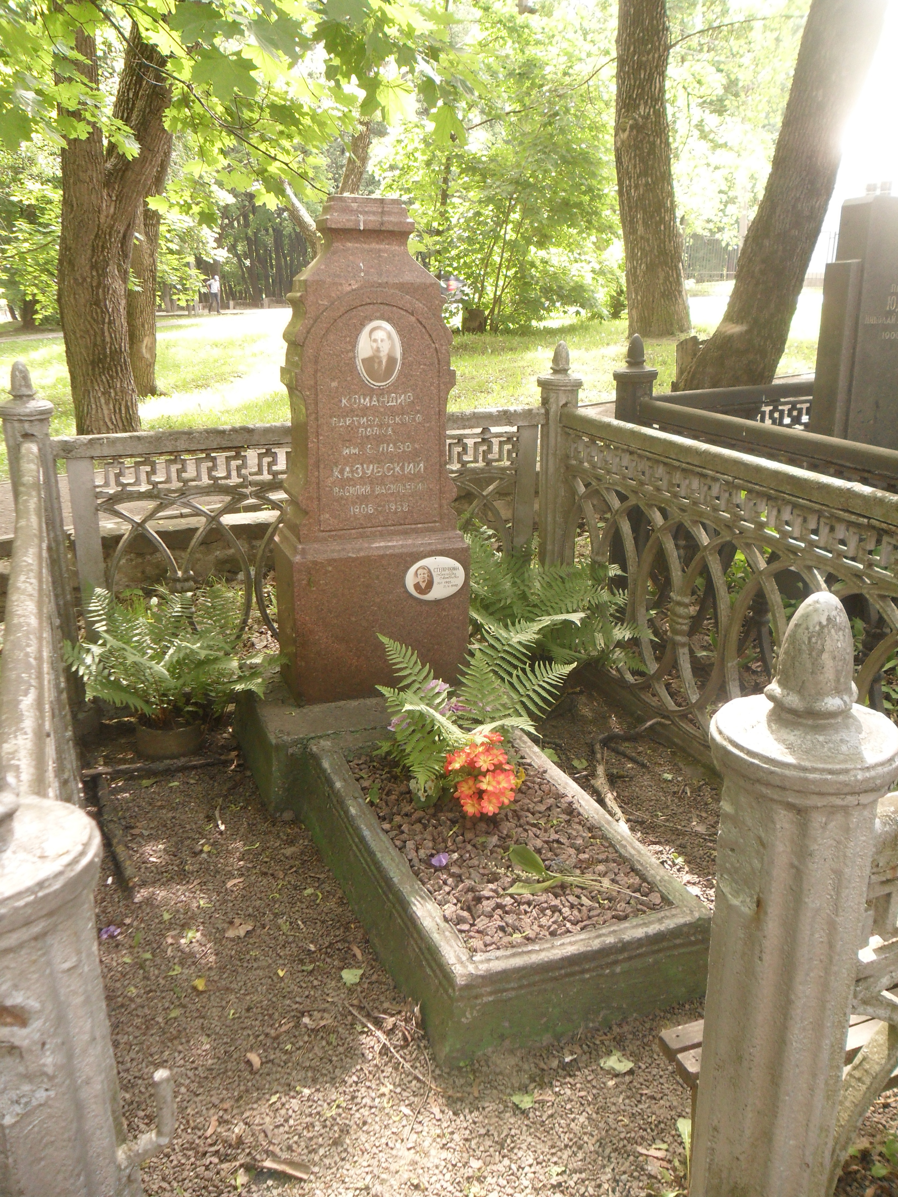 Tomb of the commander of the guerrilla regiment named after Sergei Lazo Basil Kazubsky the cemetery, "Blade" in Smolensk. The object of cultural heritage at the regional level.